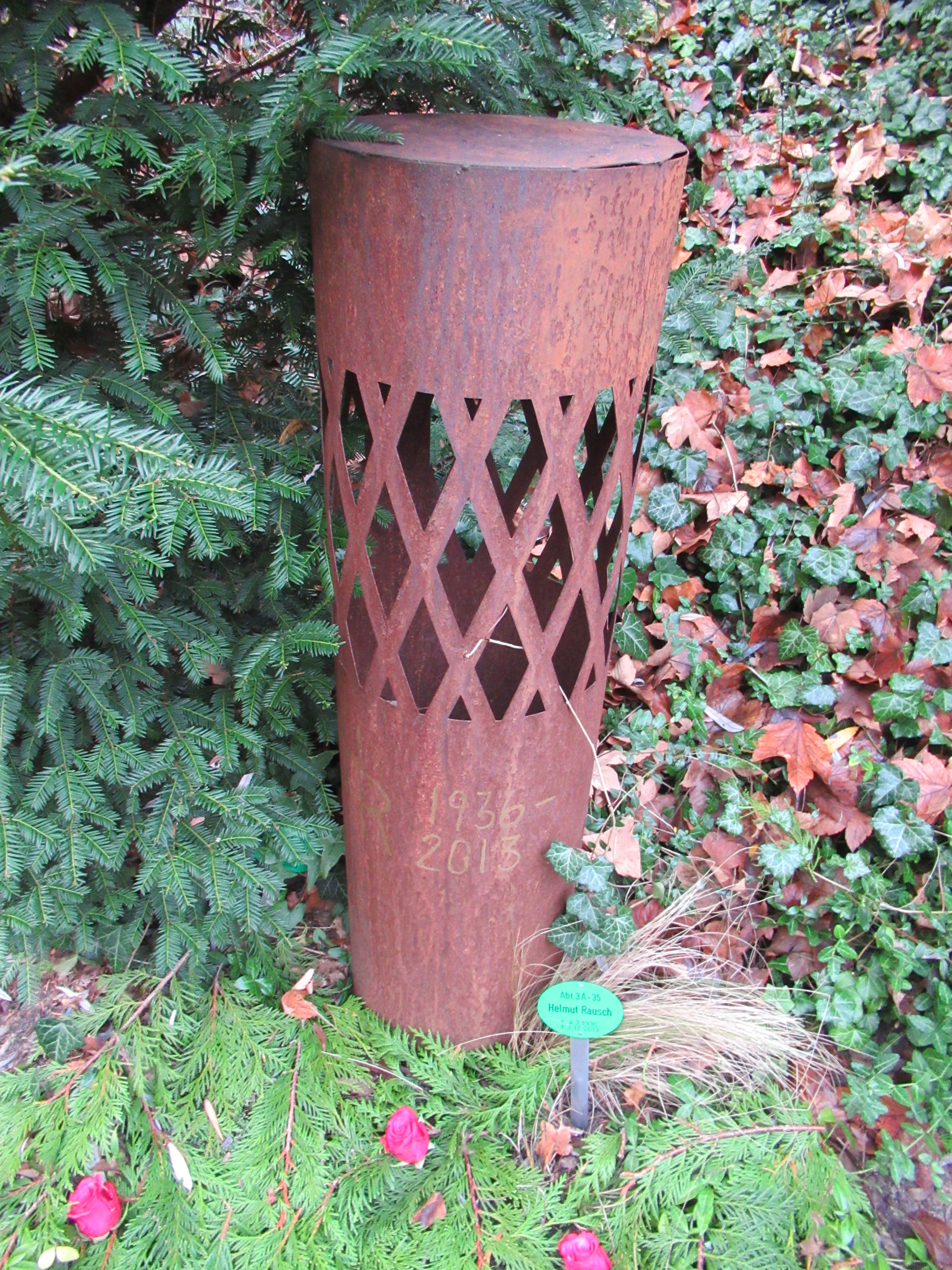 Grave of German businessman and art historian Helmut Rausch at Friedhof Heerstraße in Berlin-Westend